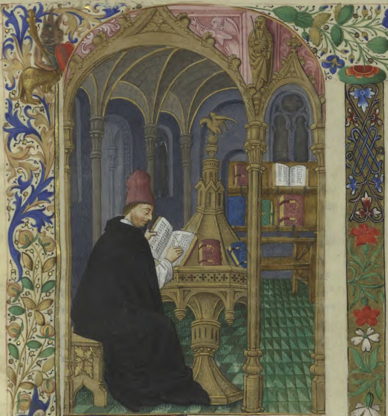 Illumination on the National Library of Portugal's manuscript copy of Nicholas Triveth's Expositio viginti Librorum Titi Livii, 1462-1470, by the Maître de Jouvenel des Ursins. It depicts the author, Triveth.